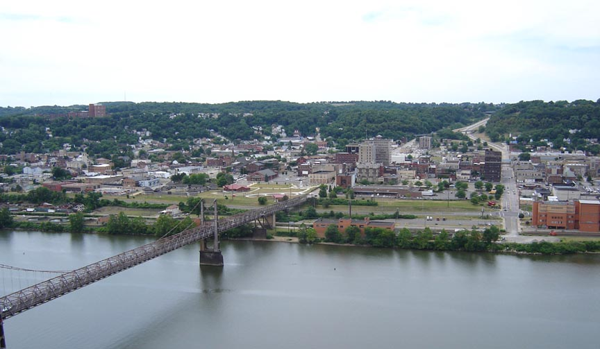 Ohio - Steubenville from WV 06-23-07 BY:Mike Sharp.